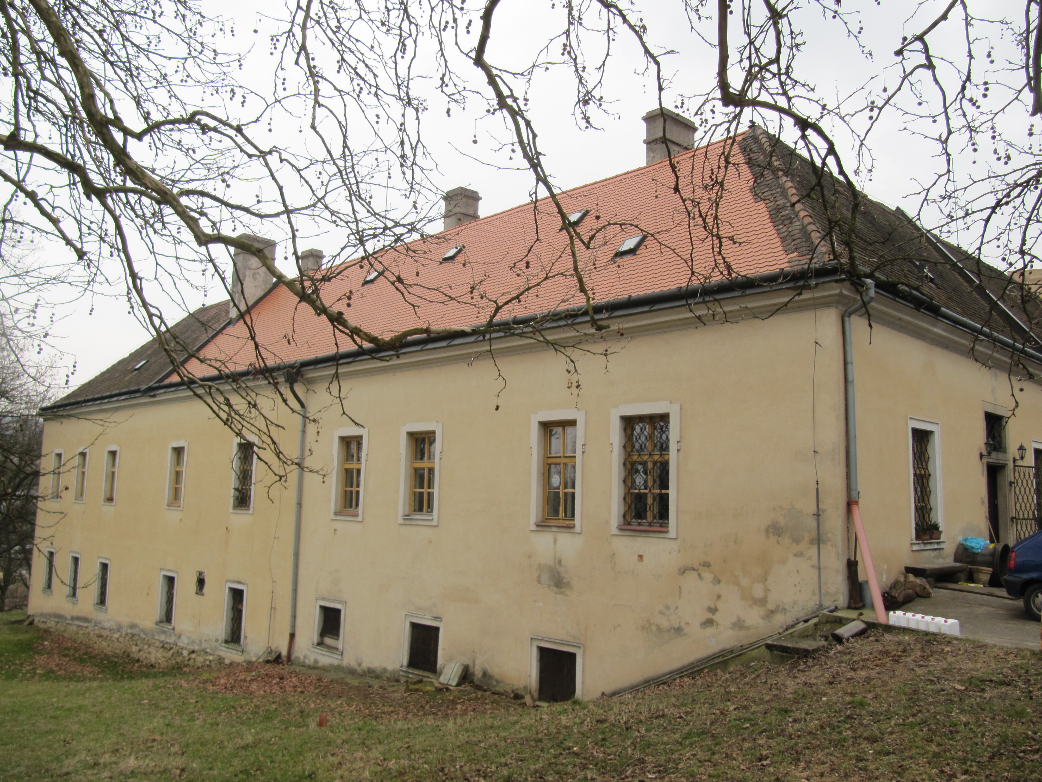 Zdounky , Kroměříž District, Czech Republic. Castle.